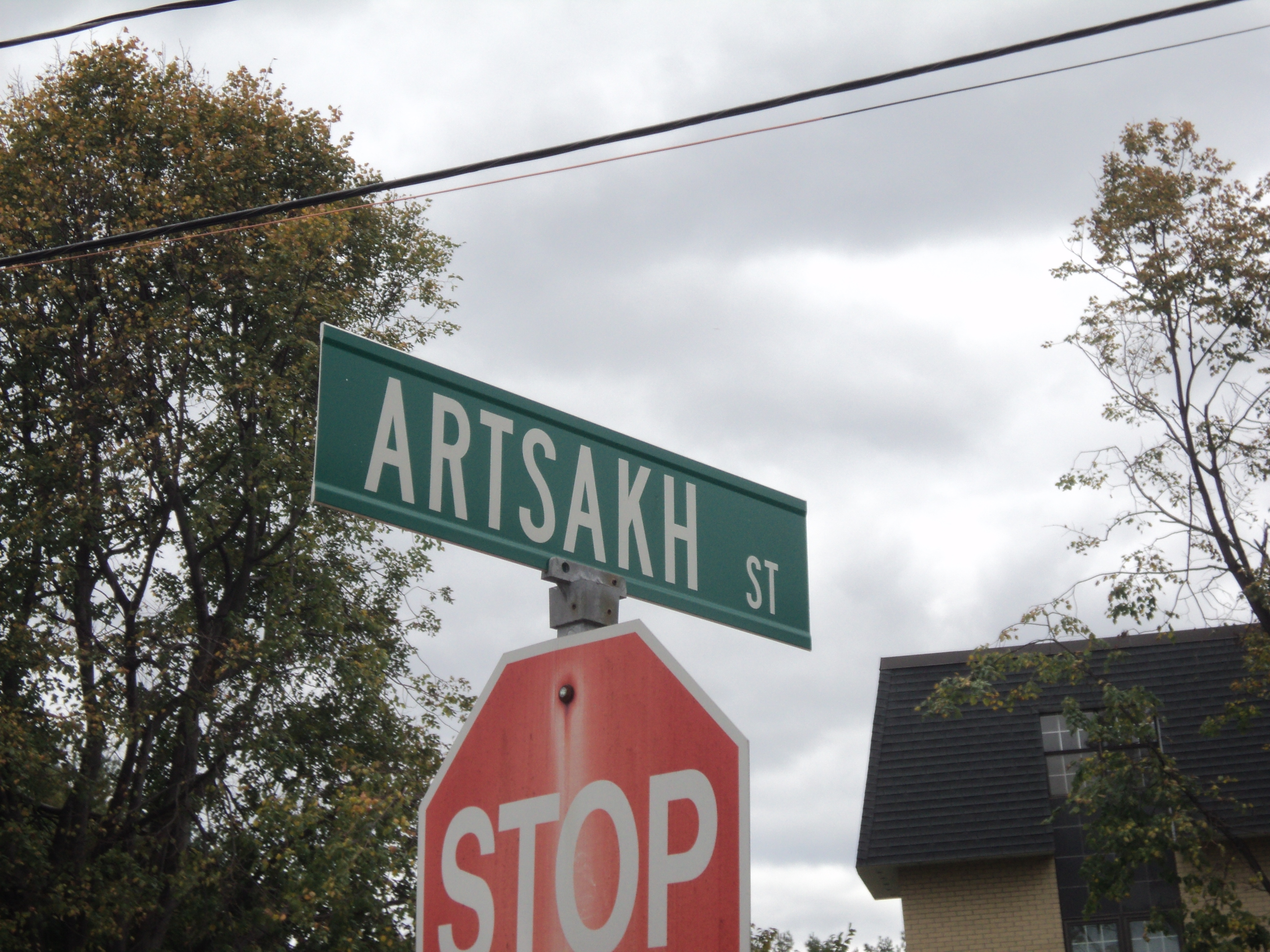 Artsakh St. sign in Watertown, MA